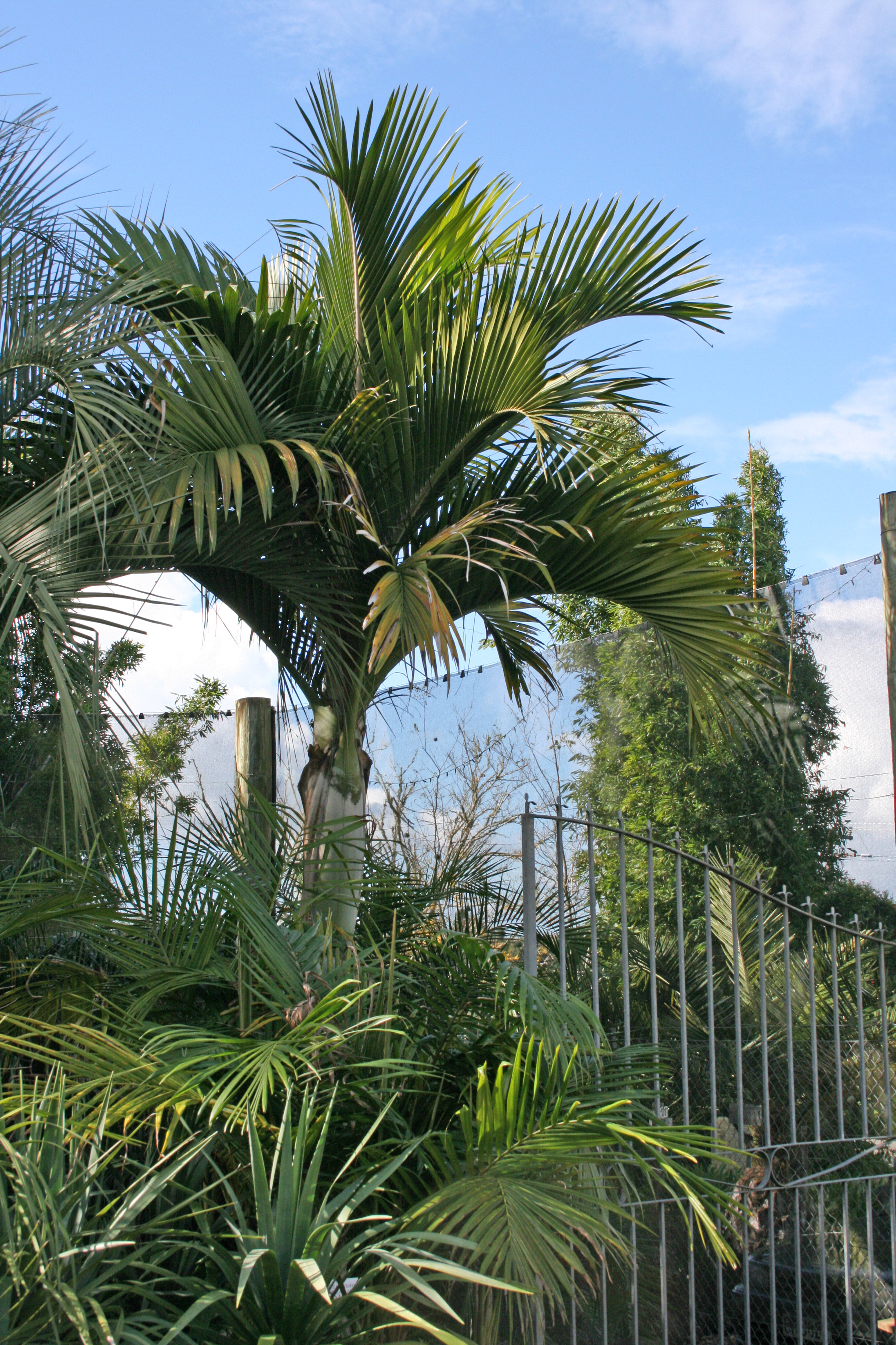 Hedyscepe canterburyana, a palm endemic to Lord Howe Island, Australia. Specimen in cultivation at Kerikeri, New Zealand.